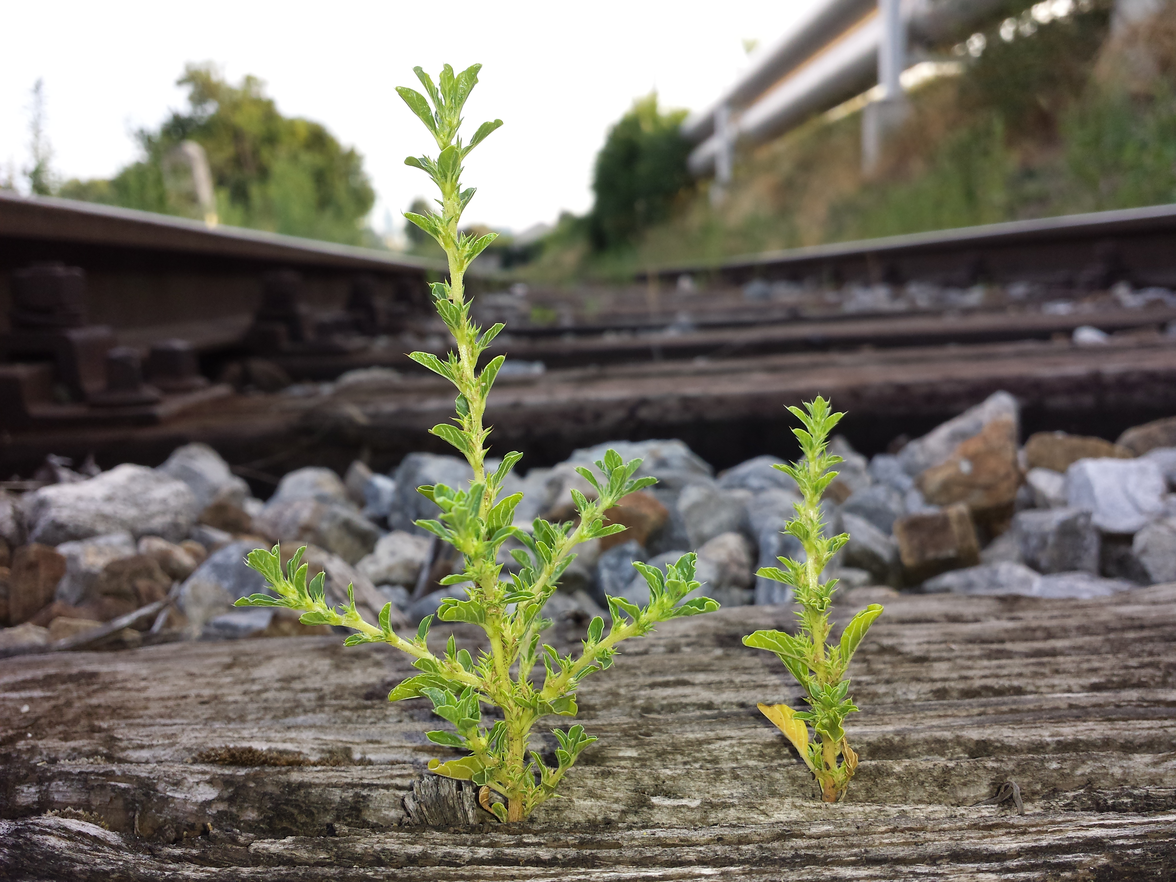 Habitus Taxonym: Amaranthus albus ss Fischer et al. EfÖLS 2008 ISBN 978-3-85474-187-9 Location: Floridsdorf rail station, Vienna-Floridsdorf - ca. 160 m a.s.l. Habitat: sleeper